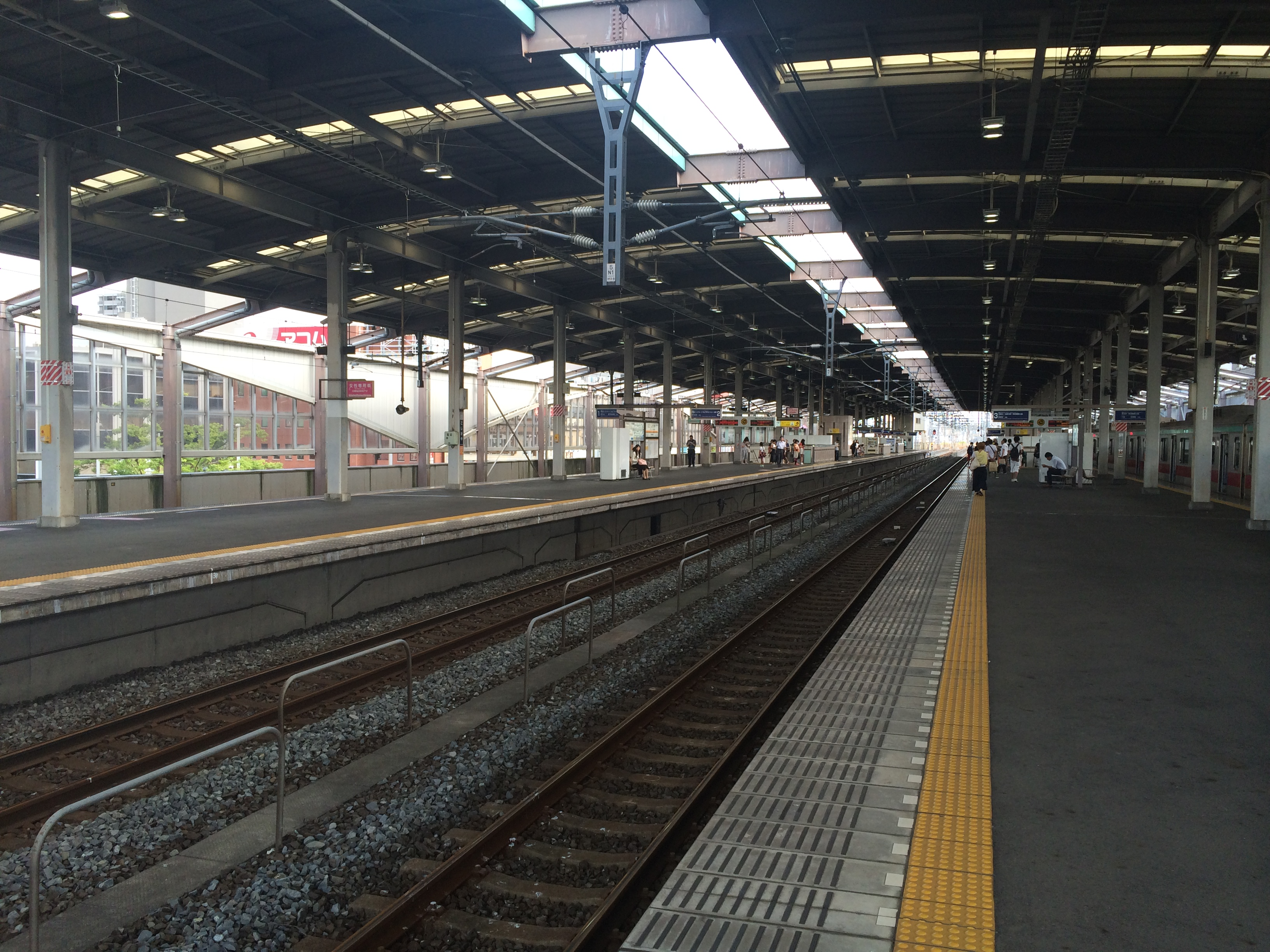 The platforms at Koshigaya Station on the Tobu Skytree Line